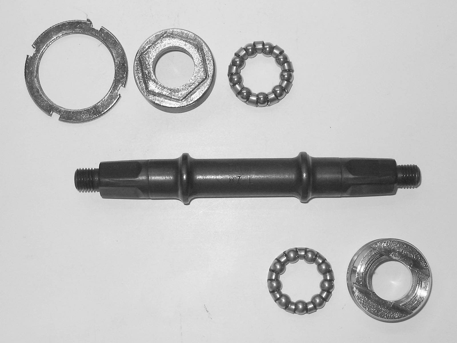 Conventional cup and cone bicycle bottom bracket.